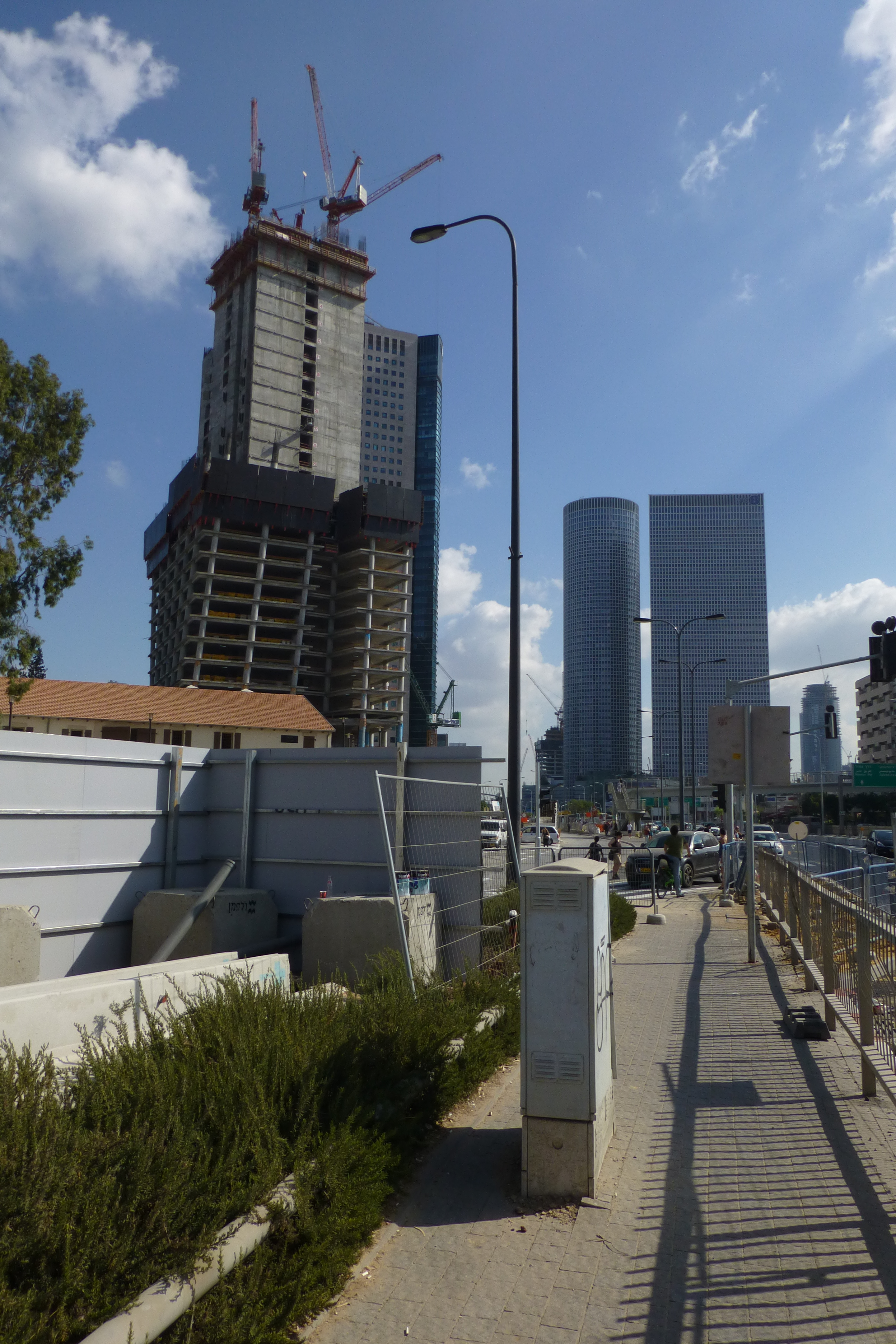 Azriely Towers